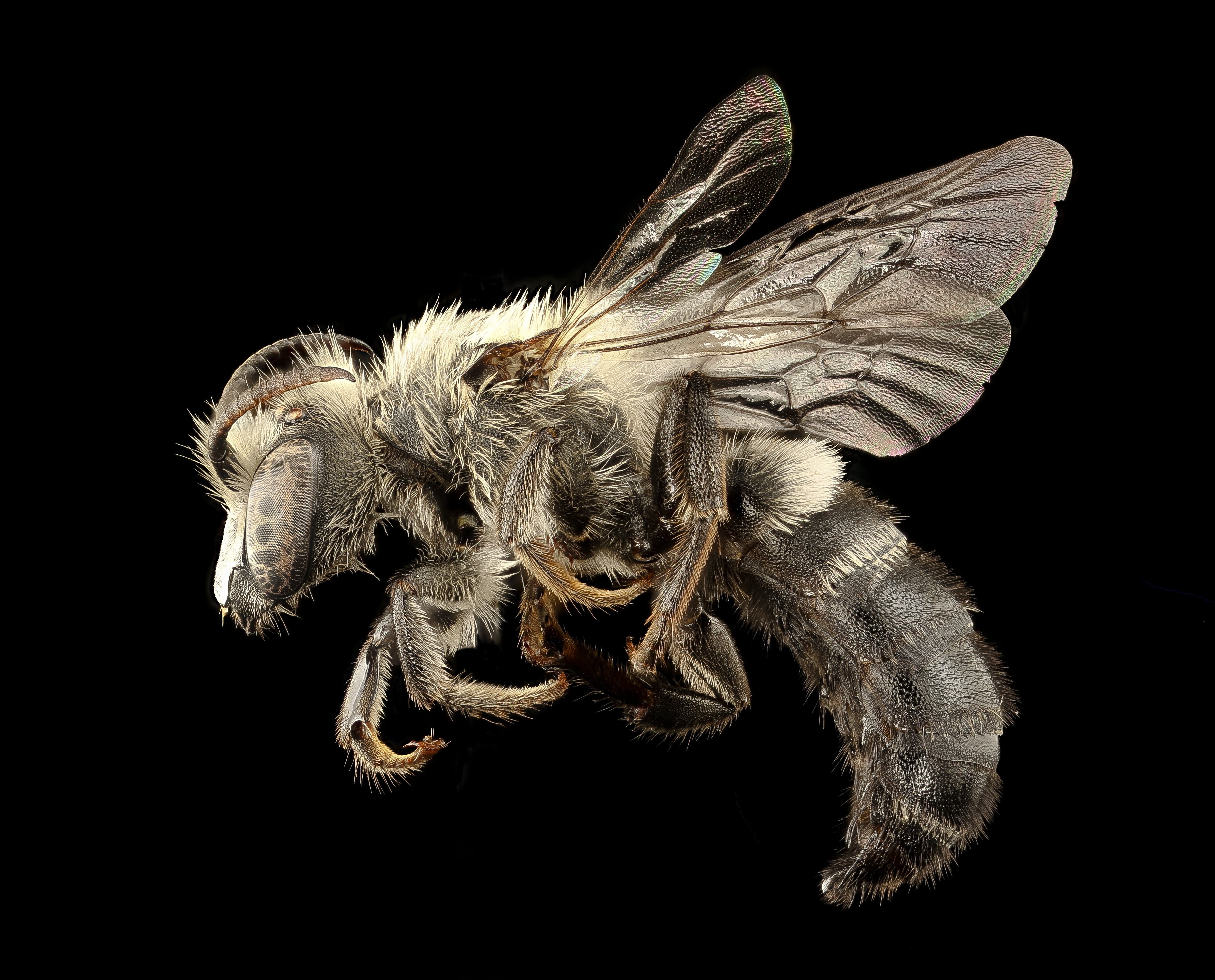 The male of Hoplitis albifrons, a common northern and western mountain species. Relatively large, almost the size of a honey bee at least in length. Found in Yosemite National park and collected for a project done by Lauren Ponisio examining the effect of fire diversity on bees (Ponisio et al. Gloebal Change Biol. 2016). Photograph by Samia Shell. 18:39, 9 February 2018 (UTC)18:39, 9 February 2018 (UTC) 0 18:39, 9 February 2018 (UTC)18:39, 9 February 2018 (UTC) All photographs are public domain, feel free to download and use as you wish. Photography Information: Canon Mark II 5D, Zerene Stacker, Stackshot Sled, 65mm Canon MP-E 1-5X macro lens, Twin Macro Flash in Styrofoam Cooler, F5.0, ISO 100, Shutter Speed 200 Beauty is truth, truth beauty - that is all Ye know on earth and all ye need to know " Ode on a Grecian Urn" John Keats You can also follow us on Instagram - account = USGSBIML Want some Useful Links to the Techniques We Use? Well now here you go Citizen: Art Photo Book: Bees: An Up-Close Look at Pollinators Around the World Free Field Guide to Bee Genera of Maryland Basic USGSBIML set up: USGSBIML Photoshopping Technique: Note that we now have added using the burn tool at 50% opacity set to shadows to clean up the halos that bleed into the black background from "hot" color sections of the picture. Bees of Maryland Organized by Taxa with information on each Genus PDF of Basic USGSBIML Photography Set Up: ftp://ftpext.usgs.gov/pub/er/md/laurel/Droege/How%20to%20Take%20MacroPhotographs%20of%20Insects%20BIML%20Lab2.pdf Google Hangout Demonstration of Techniques: or Excellent Technical Form on Stacking: Contact information: Sam Droege 301 497 5840